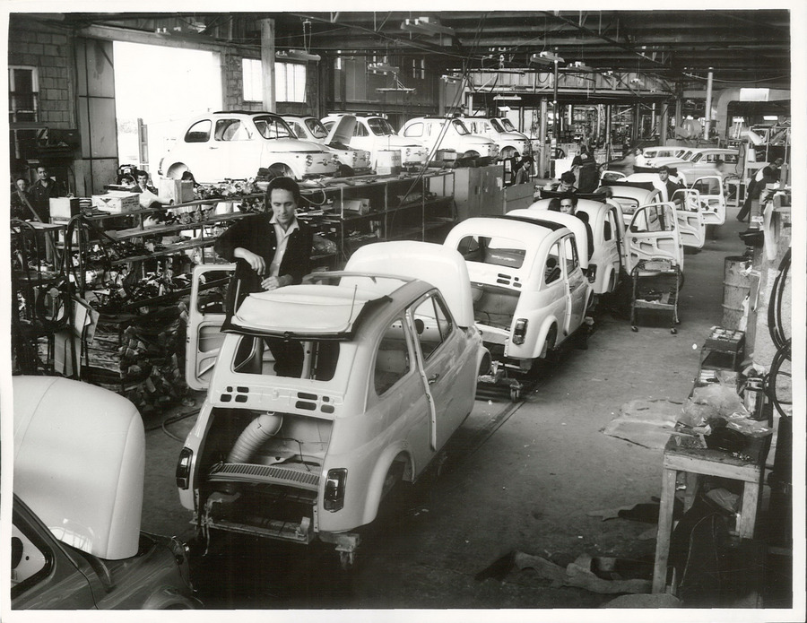 Shown here is an assembler at the Fiat Assembly Works in Otahuhu, Auckland in 1966. Archives New Zealand Reference: AAQT 6539 W3537 67 / A80772